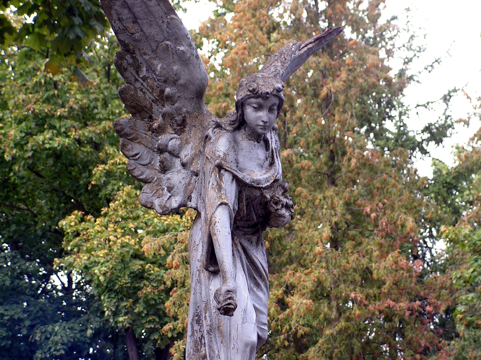 Statue of angel from Apolonia Gawłowska's (1895-1917) grave on Communal Cemetery in Włocławek.